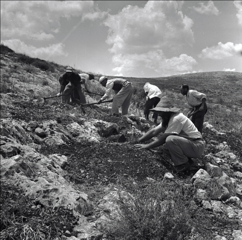 Planting of the Gilboa Mountains, Econimy of Israel